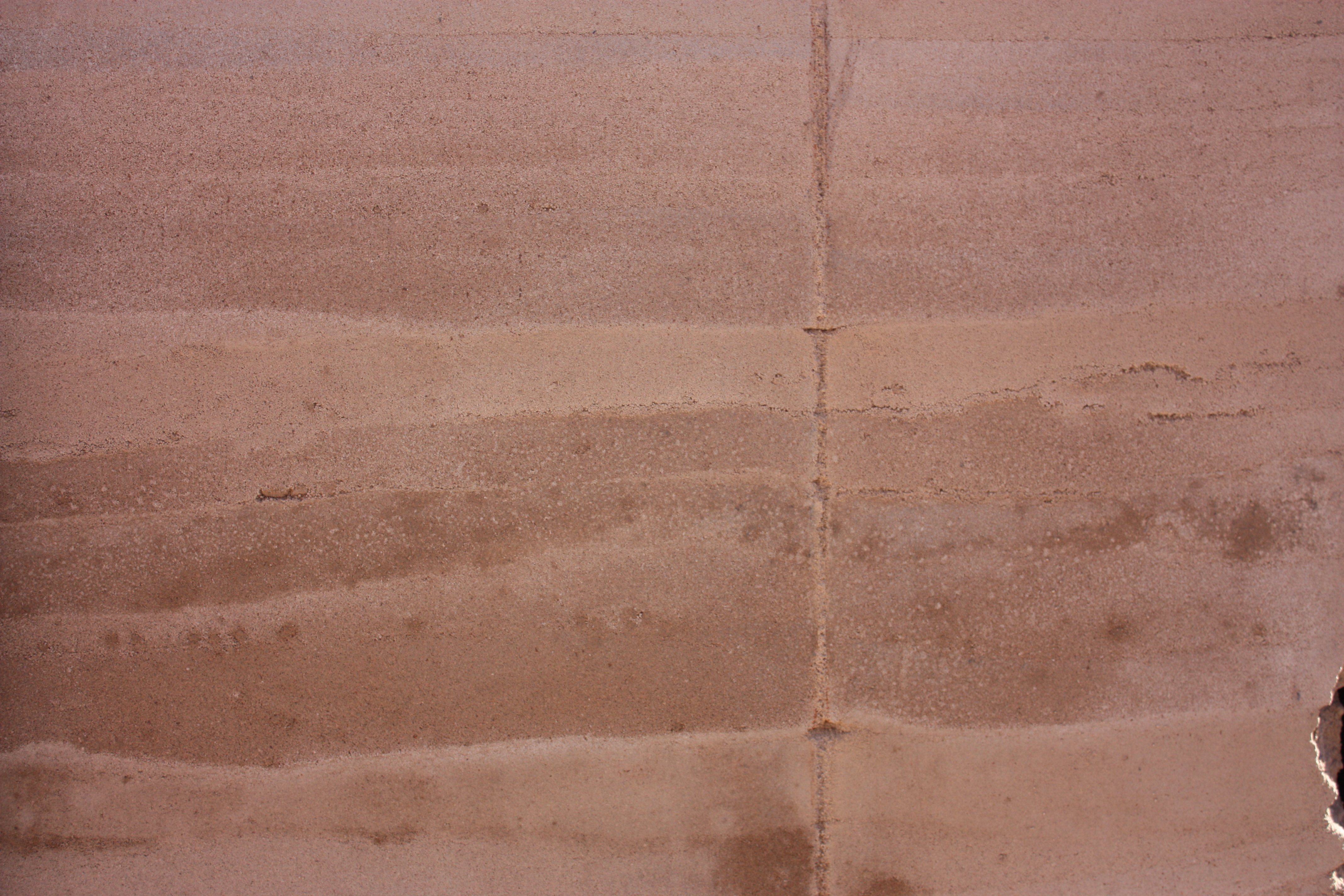 Close up on a rammed earth surface